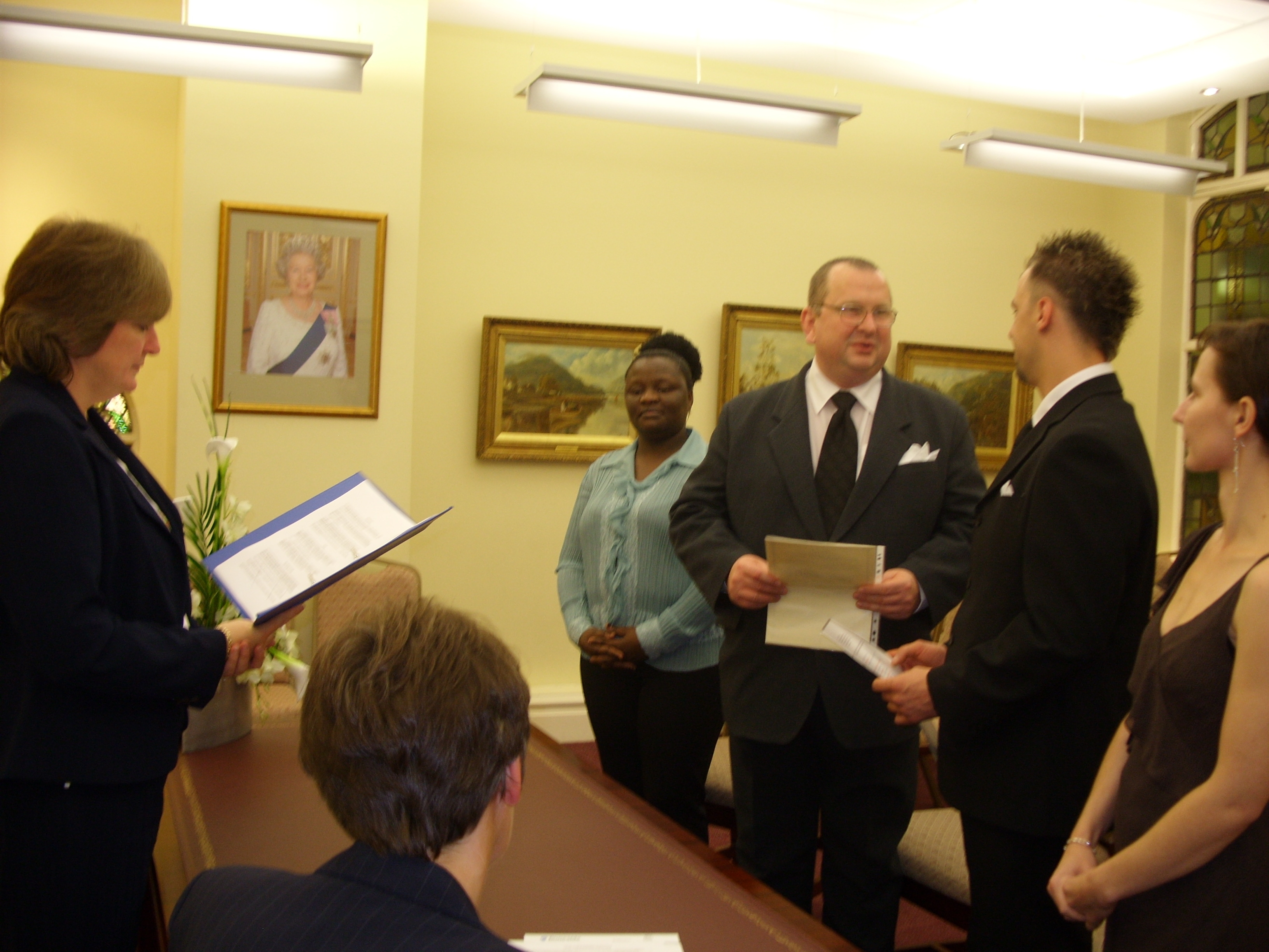 Waldemar Zboralski